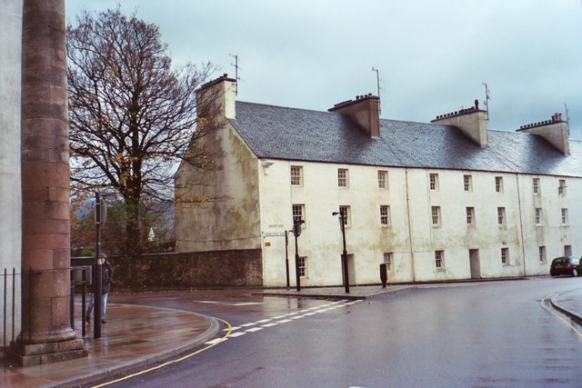 Main Street, Inveraray These are such solidly built structures - former barracks I think. Just look at all those chimneys!